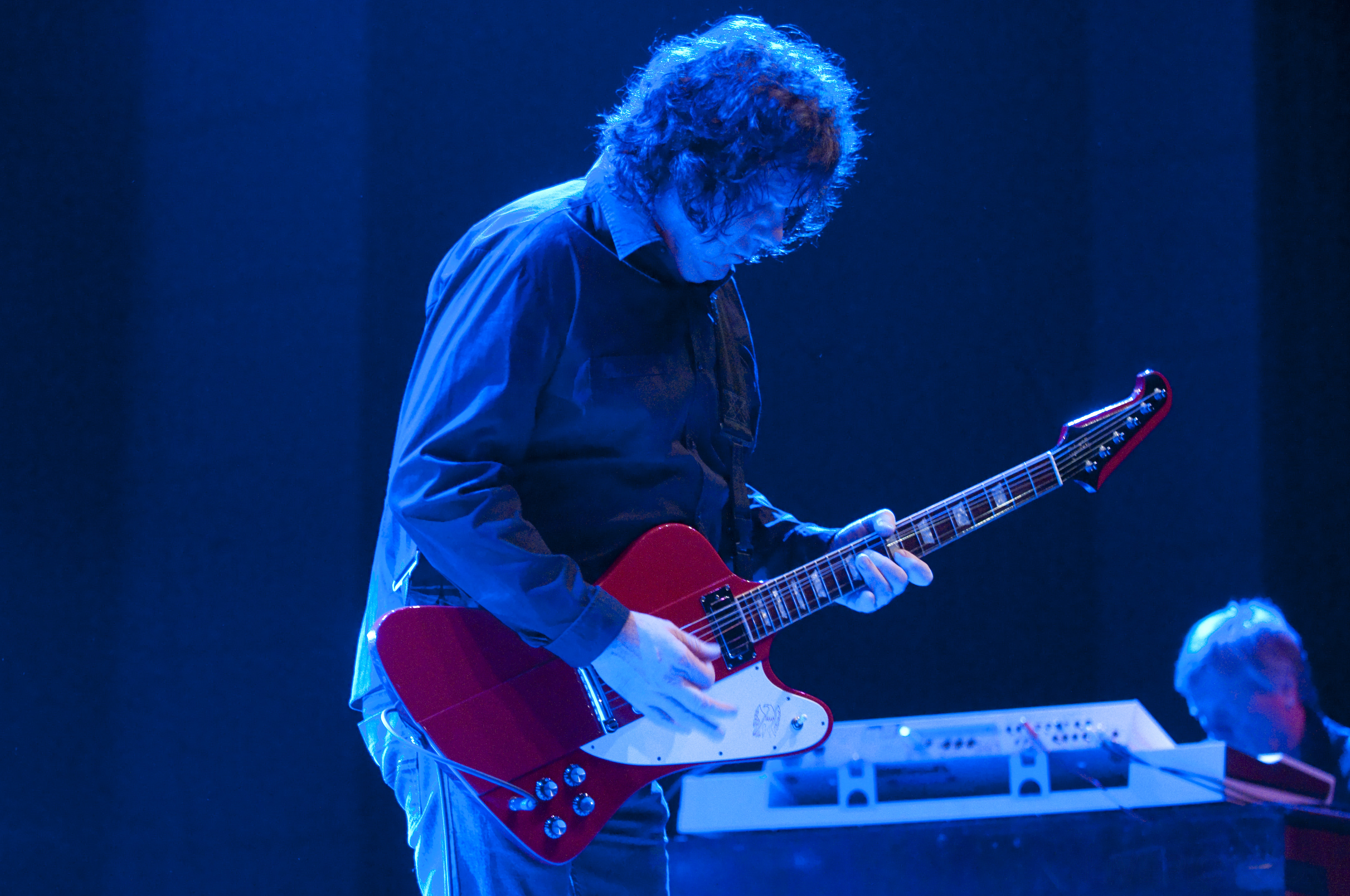 Gary Moore